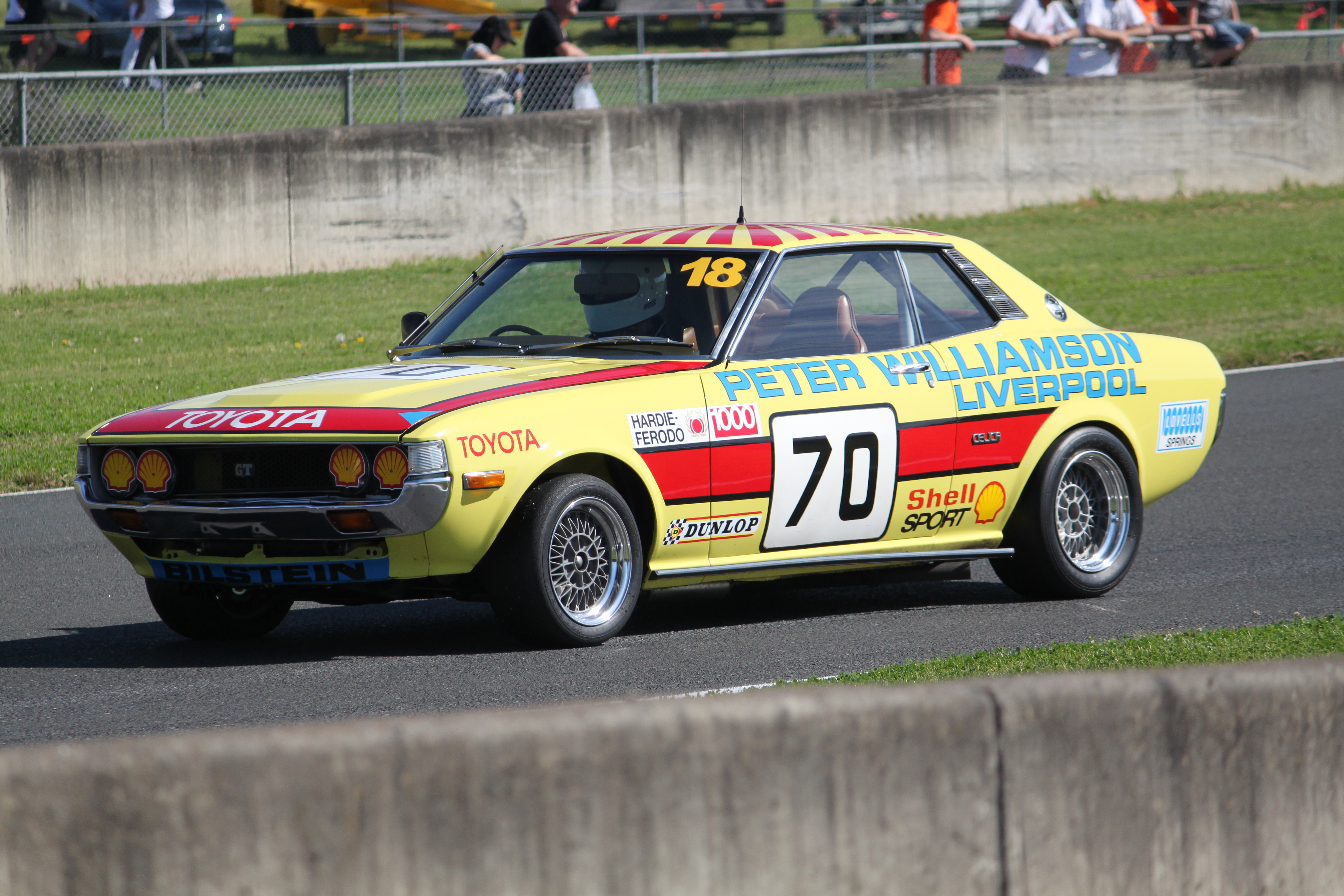 Toyota Celica Bathurst Williamson